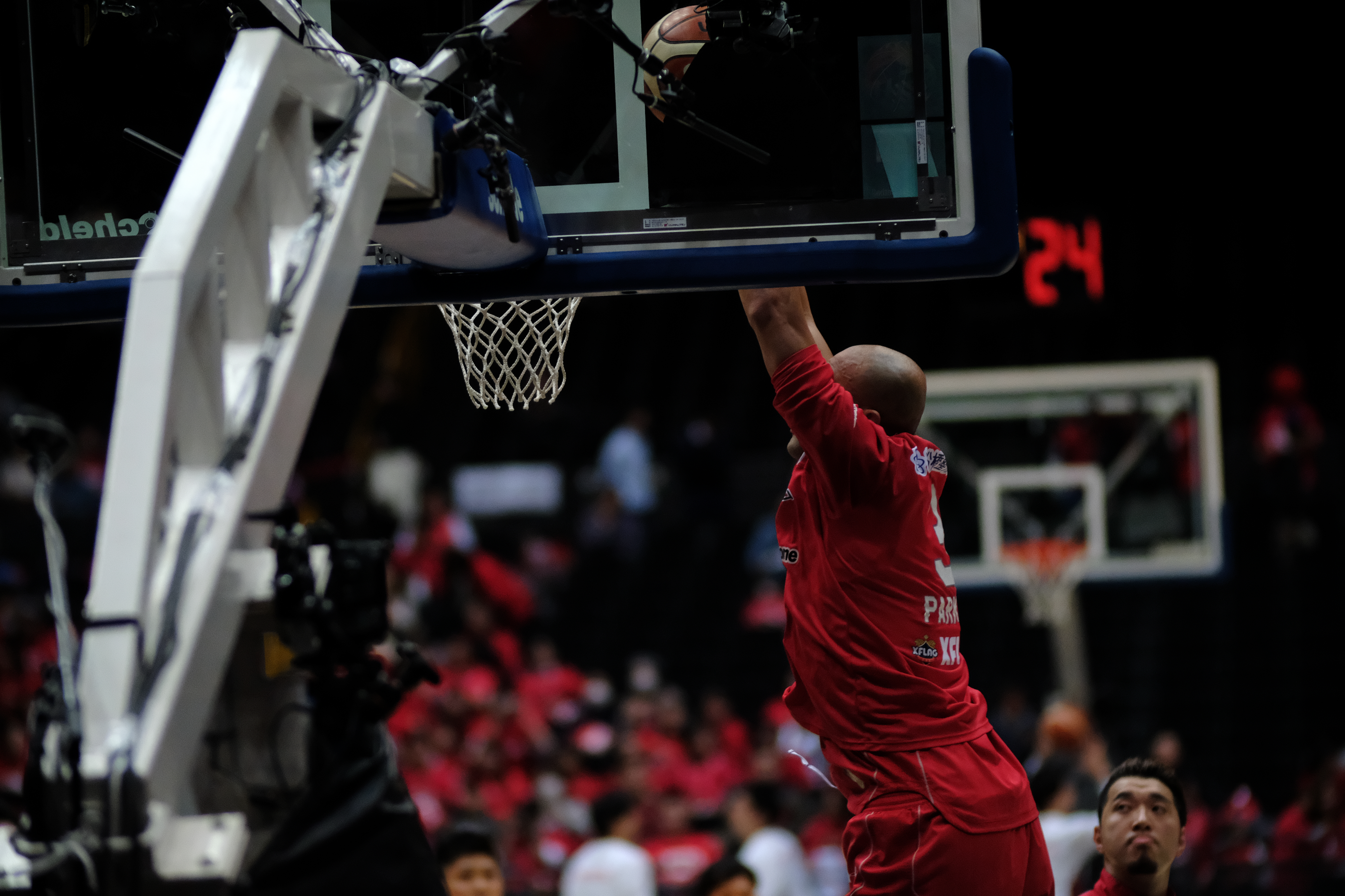 Michael Parker